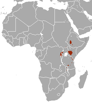 Long-haired Rousette (Rousettus lanosus) range